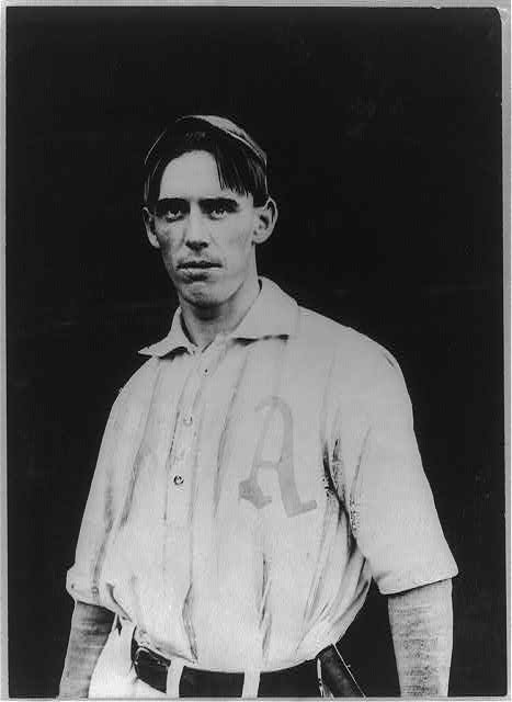 Major League Baseball player Danny Hoffman, appearing in the uniform of the Philadelphia Athletics.